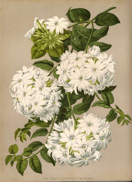 Jasminum multiflorum (Burm.f.) Andrews, syn. Jasminum gracillimum Hook.f.